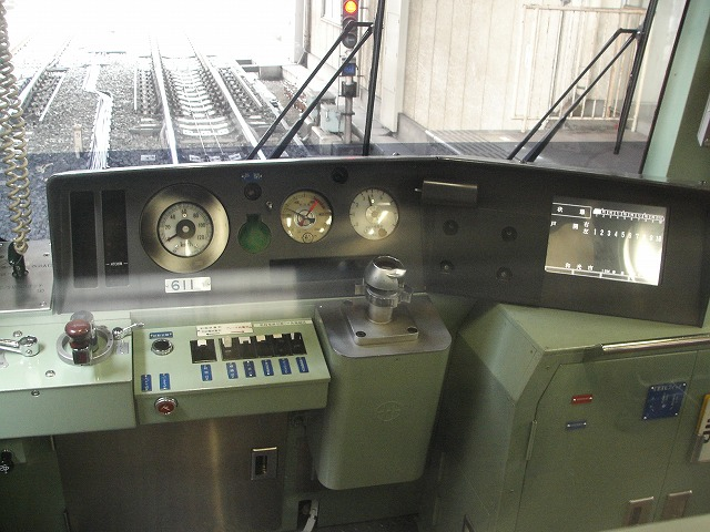 original driver's cab of Seibu 6000 series